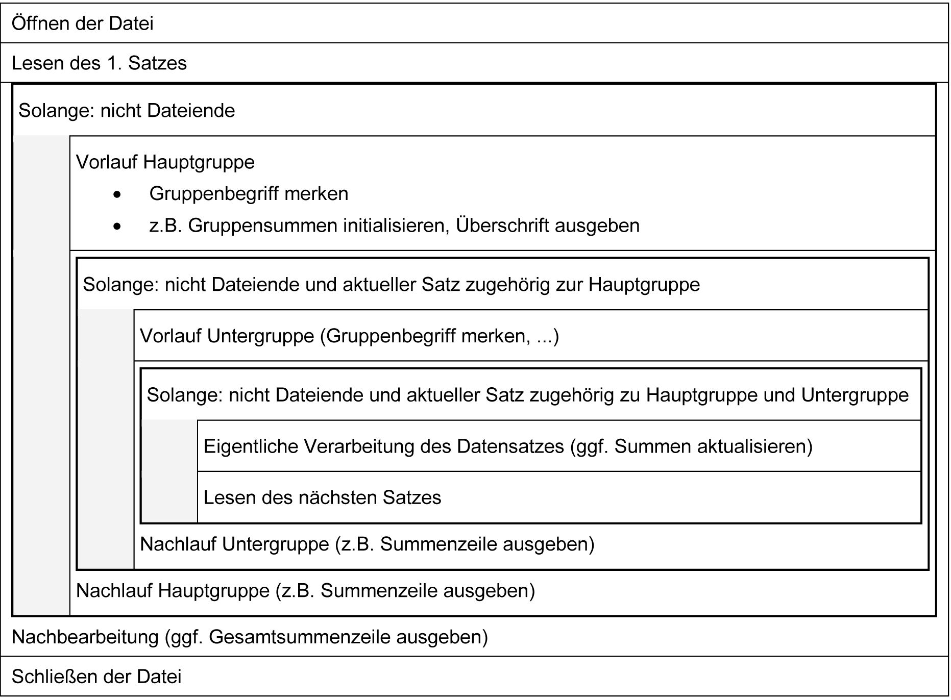 Control breack with two levels